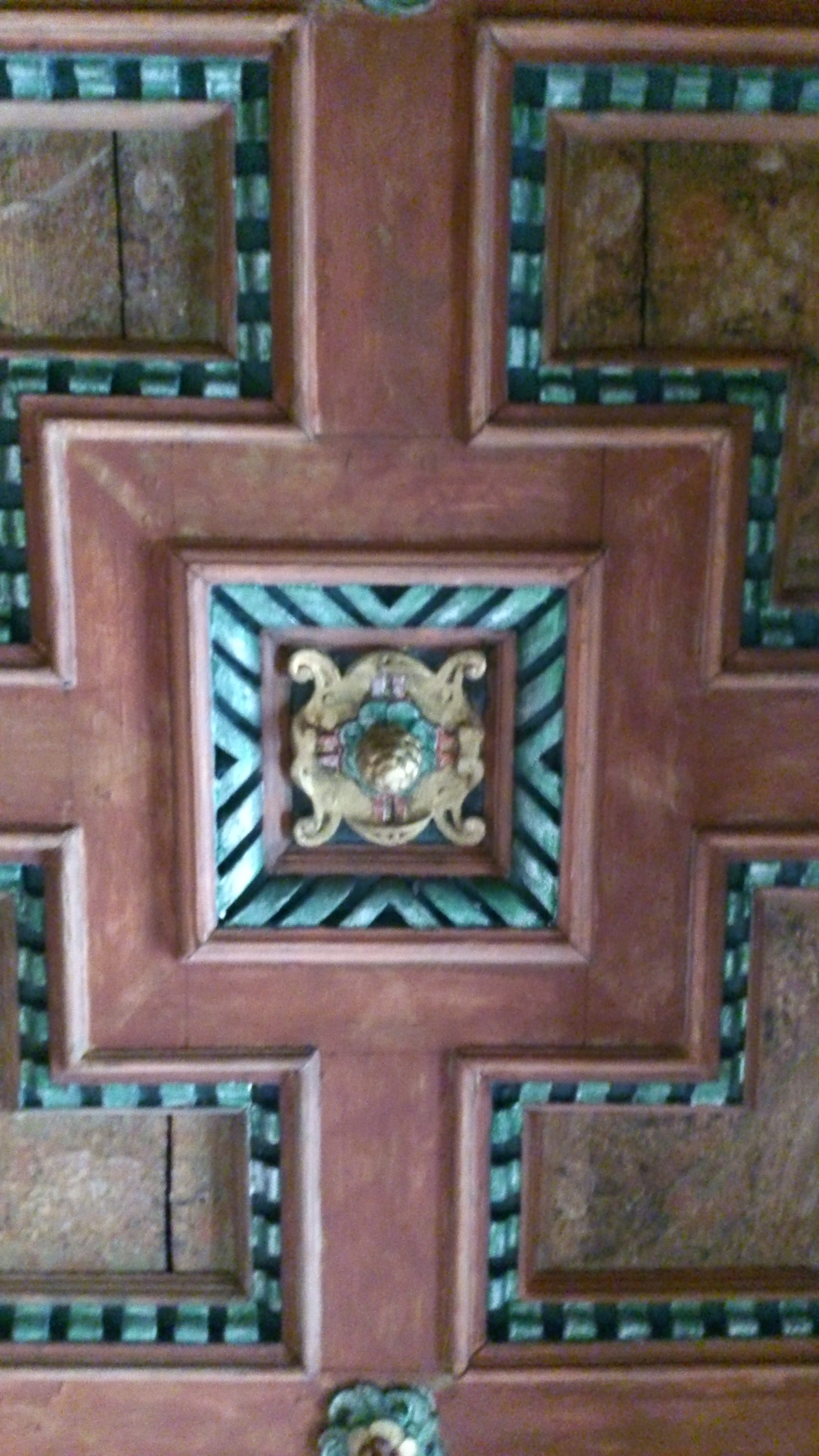 Ceiling panles from a Danish renaissance wooden living room from 1602. Exhibited at Aalborg Historiske Museum in Denmark